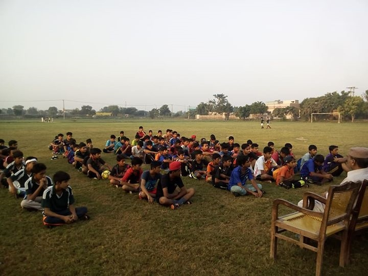 yaman Soccer League first season' s opening ceremony.